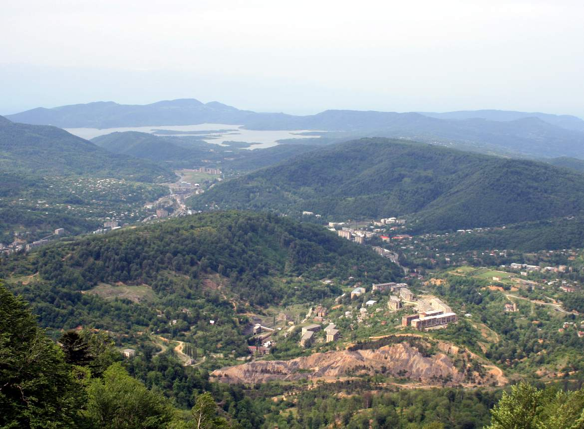 Tkibuli. View from north, from Tskhrajvari mountain